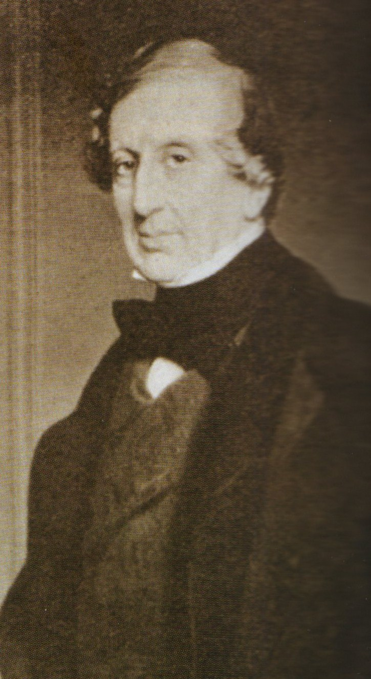 Carlo Emmanuele dal Pozzo, 5th Prince of Cisterna